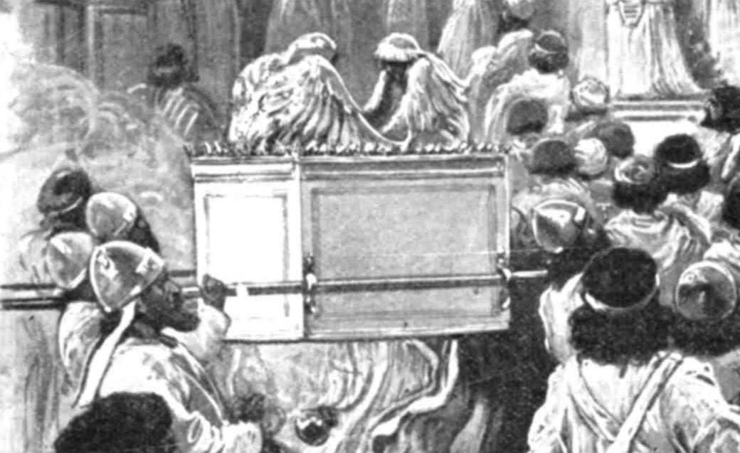 The priests brought in the ark (1 Kings 8:6).